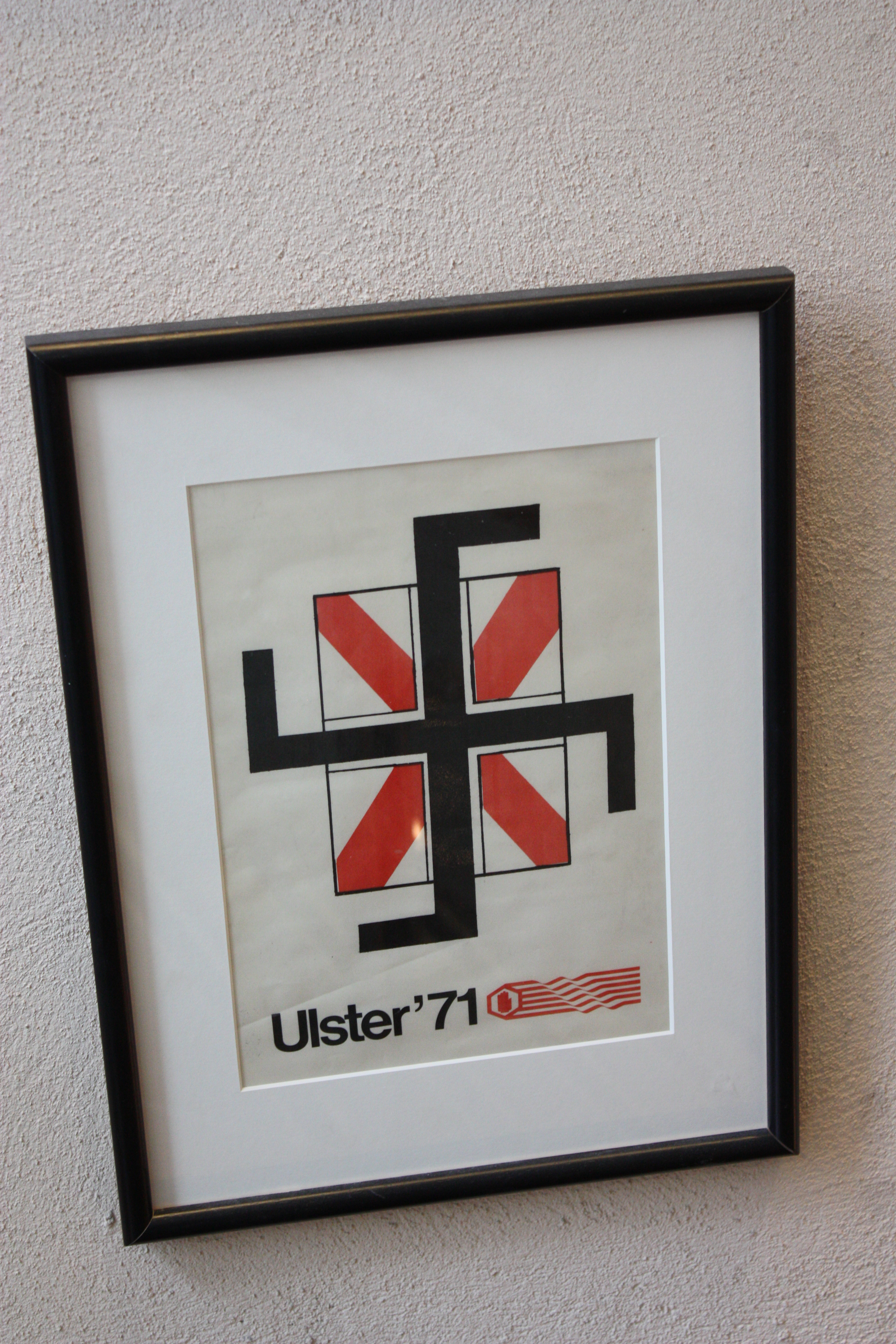 "Ulster '71" (NI Civil Rights Association, 1971), Troubled Images Exhibition, Linen Hall Library, Donegall Square North, Belfast, Northern Ireland, August 2010